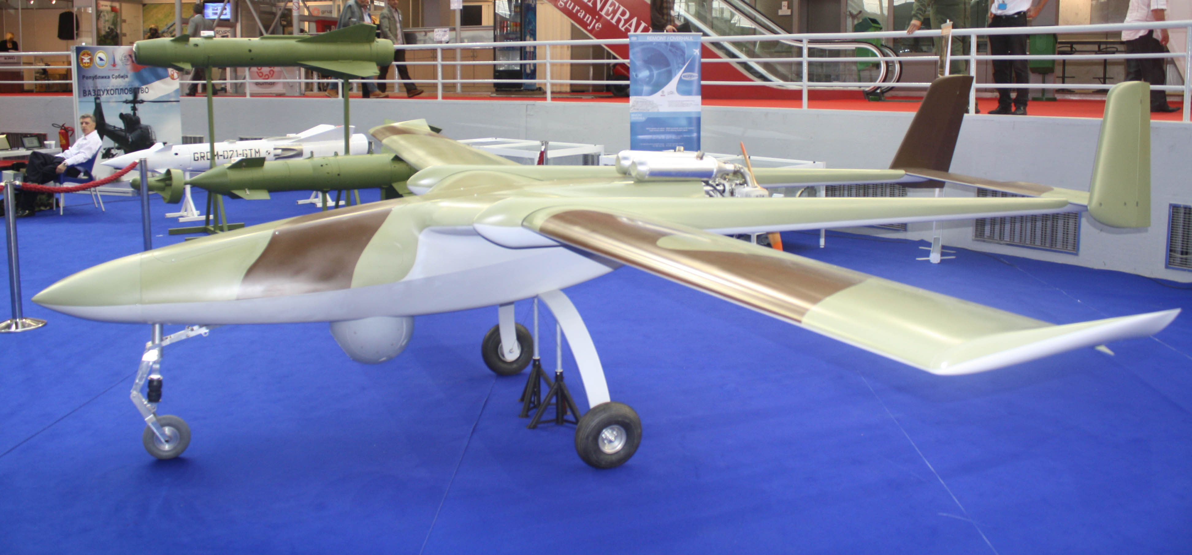 Serbian tactical UAV Pegaz on display at "Partner 2011" military fair.